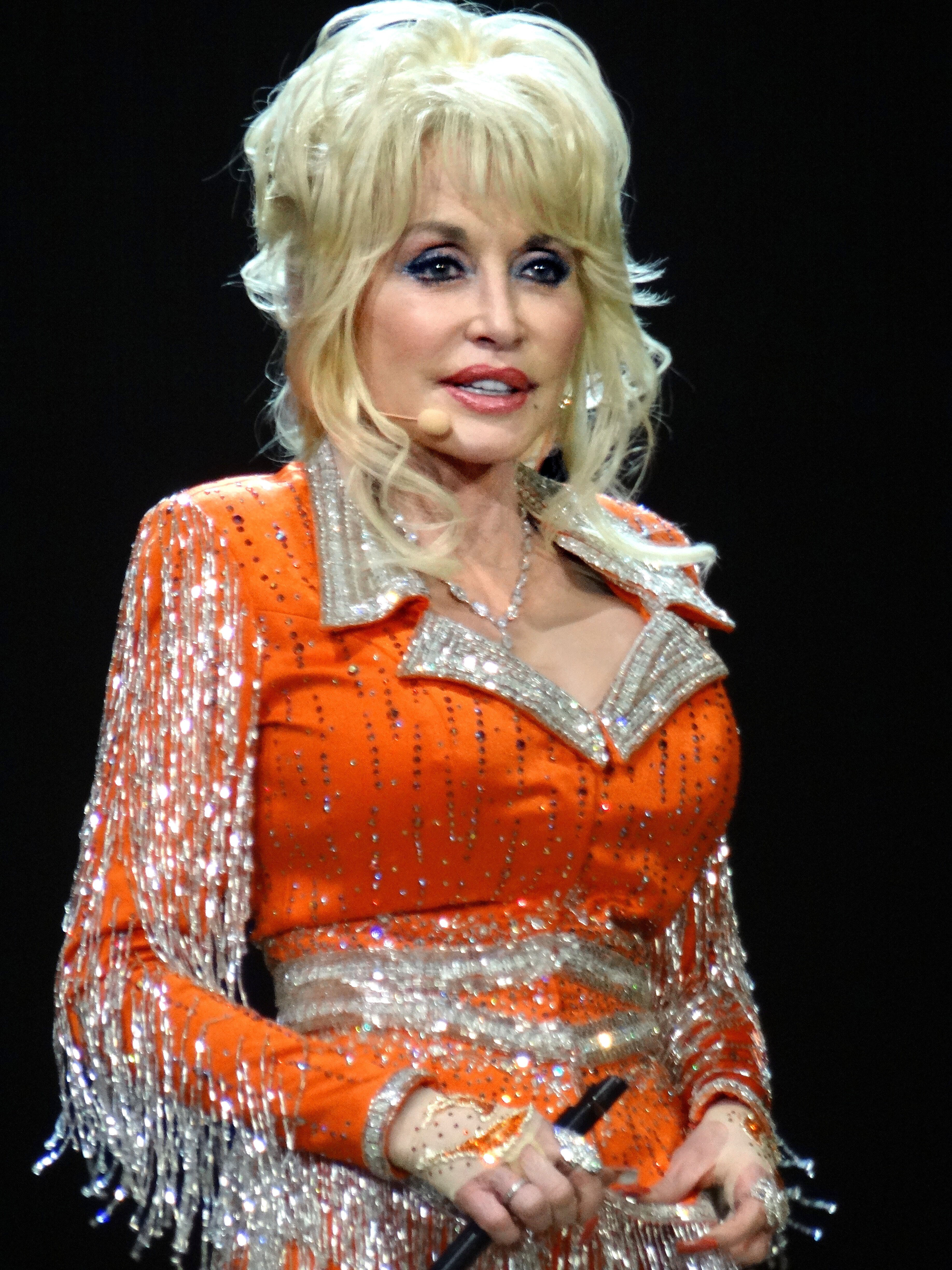 Dolly Parton at 'Blue Smoke World Tour' in Knoxville on May 28, 2014